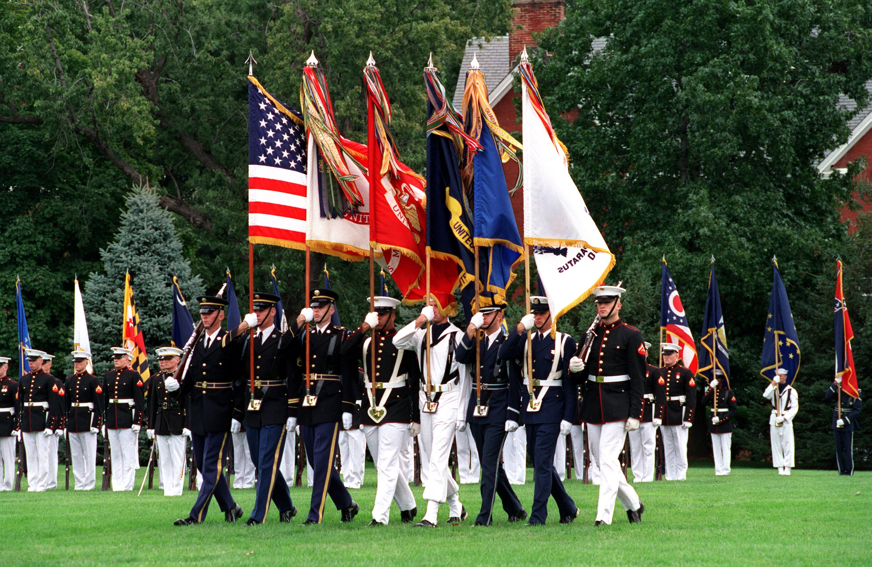 The Joint Service Color Guard advances the colors during the retirement ceremony of Chairman of the Joint Chiefs of Staff Gen. Henry H. Shelton, at Fort Myer, Va., on Oct. 2, 2001. DoD photo by Helene C. Stikkel. (Released) Services represented are, from left to right: Army, Marines, Navy, Air Force, Coast Guard, Marines.